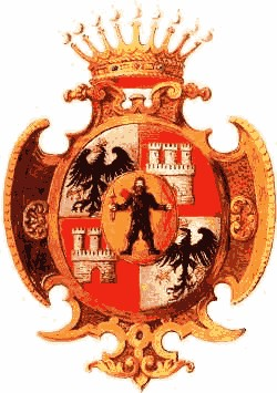 Coat of A´rms of the german family „Grafen von Ballestrem“